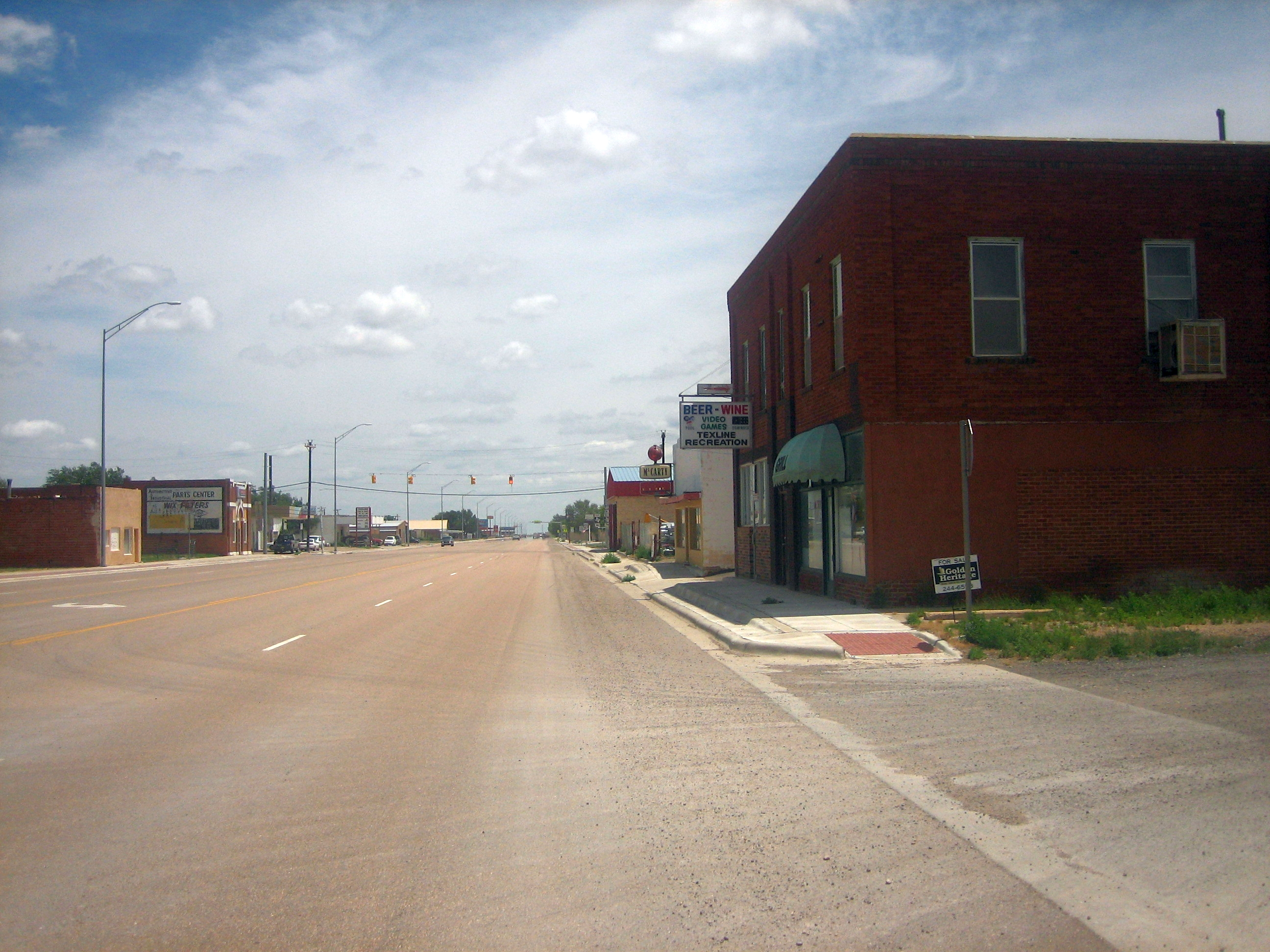 Downtown Texline, Texas on U.S. Route 87